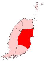 Map of Grenada showing Saint Andrew parish.